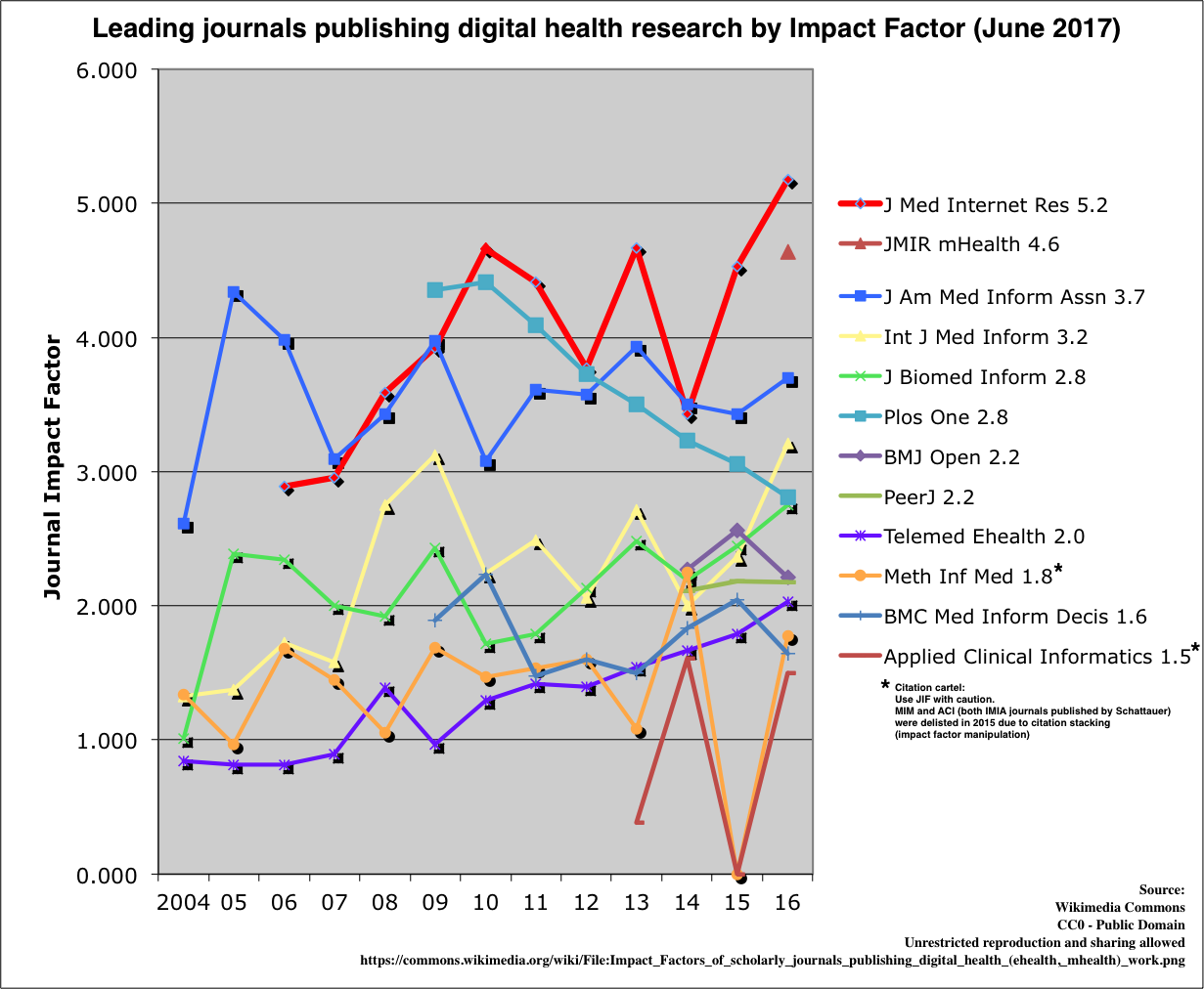 Impact Factors of scholarly journals publishing digital health (ehealth, mhealth) work (focus on Open Access journals)